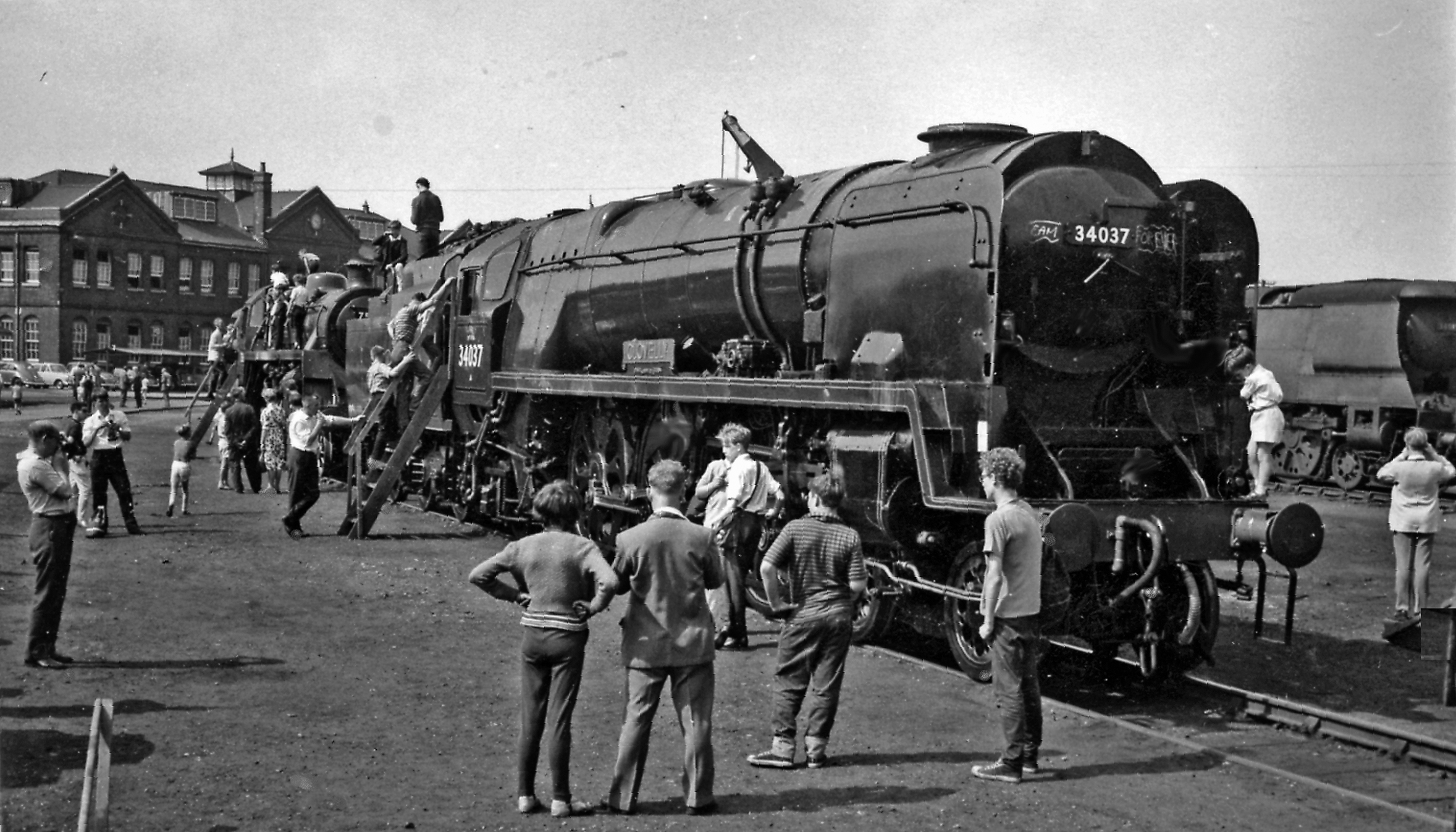 Eastleigh Railway Works Open Day, with locomotives and young admirers. Outside in the Yard, freshly-repaired rebuilt Bulleid Light Pacific No. 34037 'Clovelly' (built 8/46 as No. 21C137, renumbered 3/49, rebuilt 3/58, withdrawn 7/67) is the subject of numerous young male admirers - who are also swarmig round a BR Standard 2-6-0 beyond. In the background is the main office building of the Works.